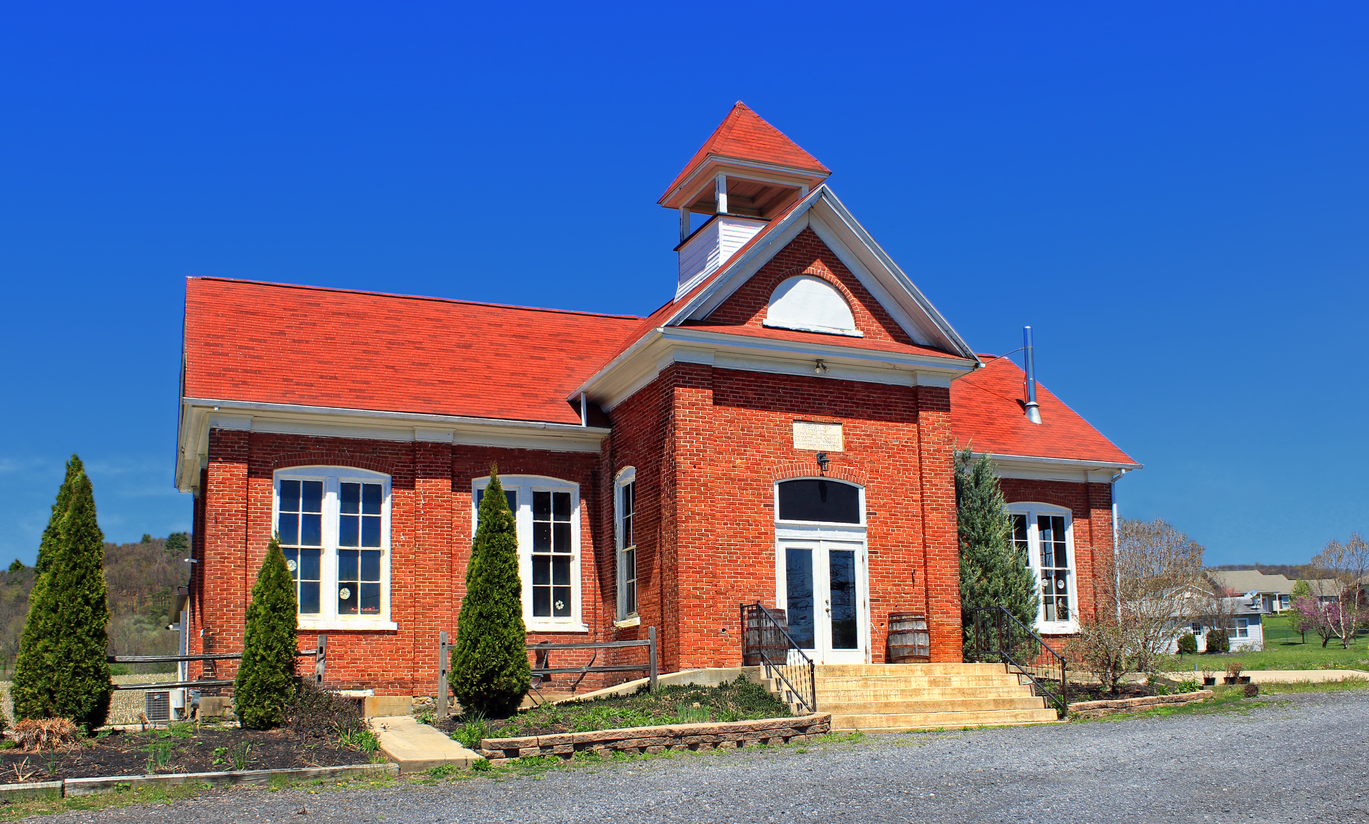 Per Flickr - Restored One-Room Schoolhouse Within the hamlet of Buckhorn, Columbia County.